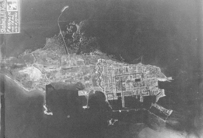 Luftwaffe aerial reconnaissance photo of Kotlin Island, Kronstadt, Leningrad